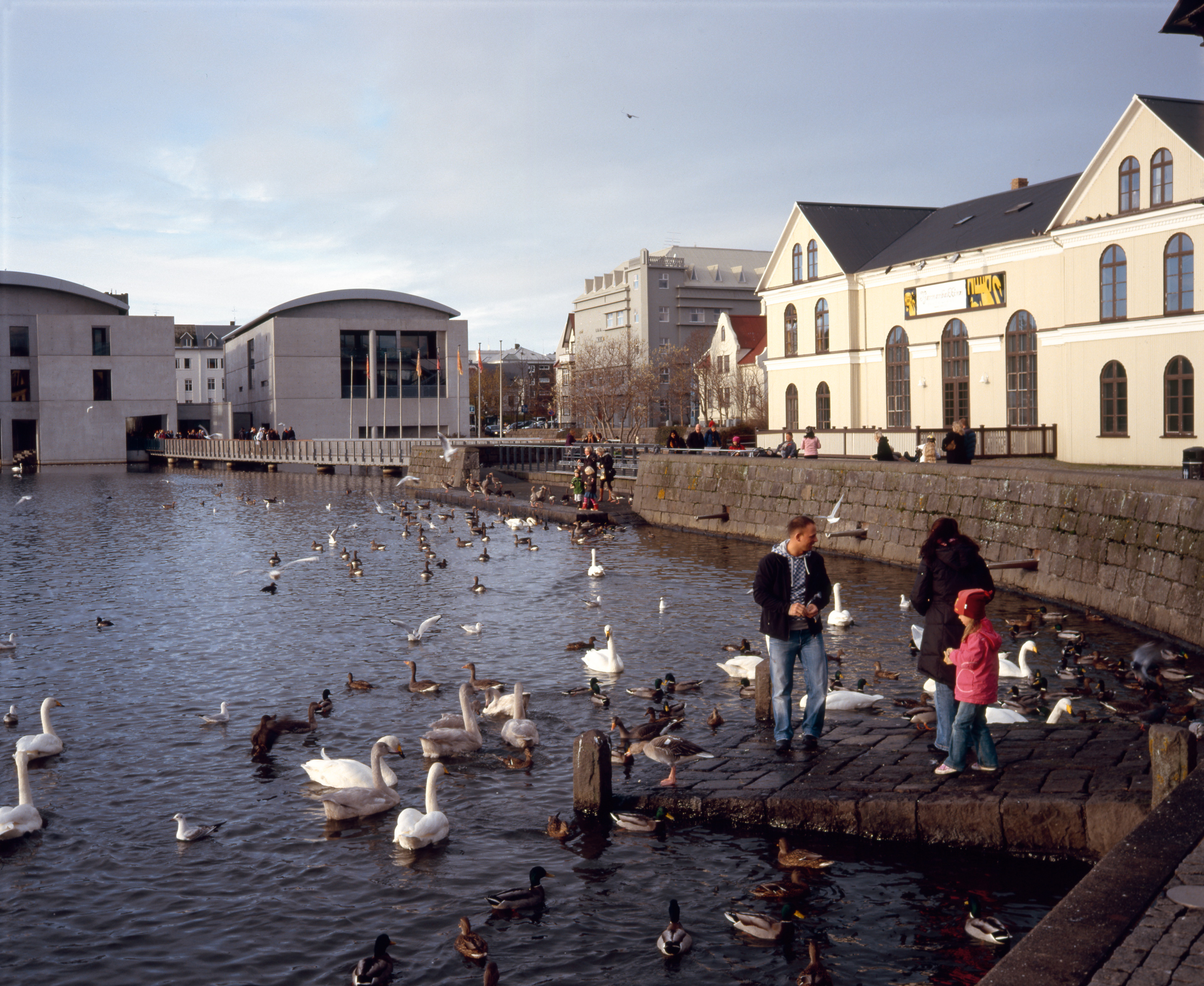 Tjörnin lake in the center of Reykjavik in Iceland